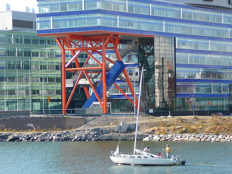 The new office houses of the street of Tammasaarenlaituri on the western Helsinki.